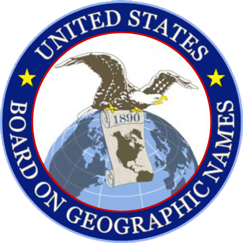 United States Board on Geographic Names seal